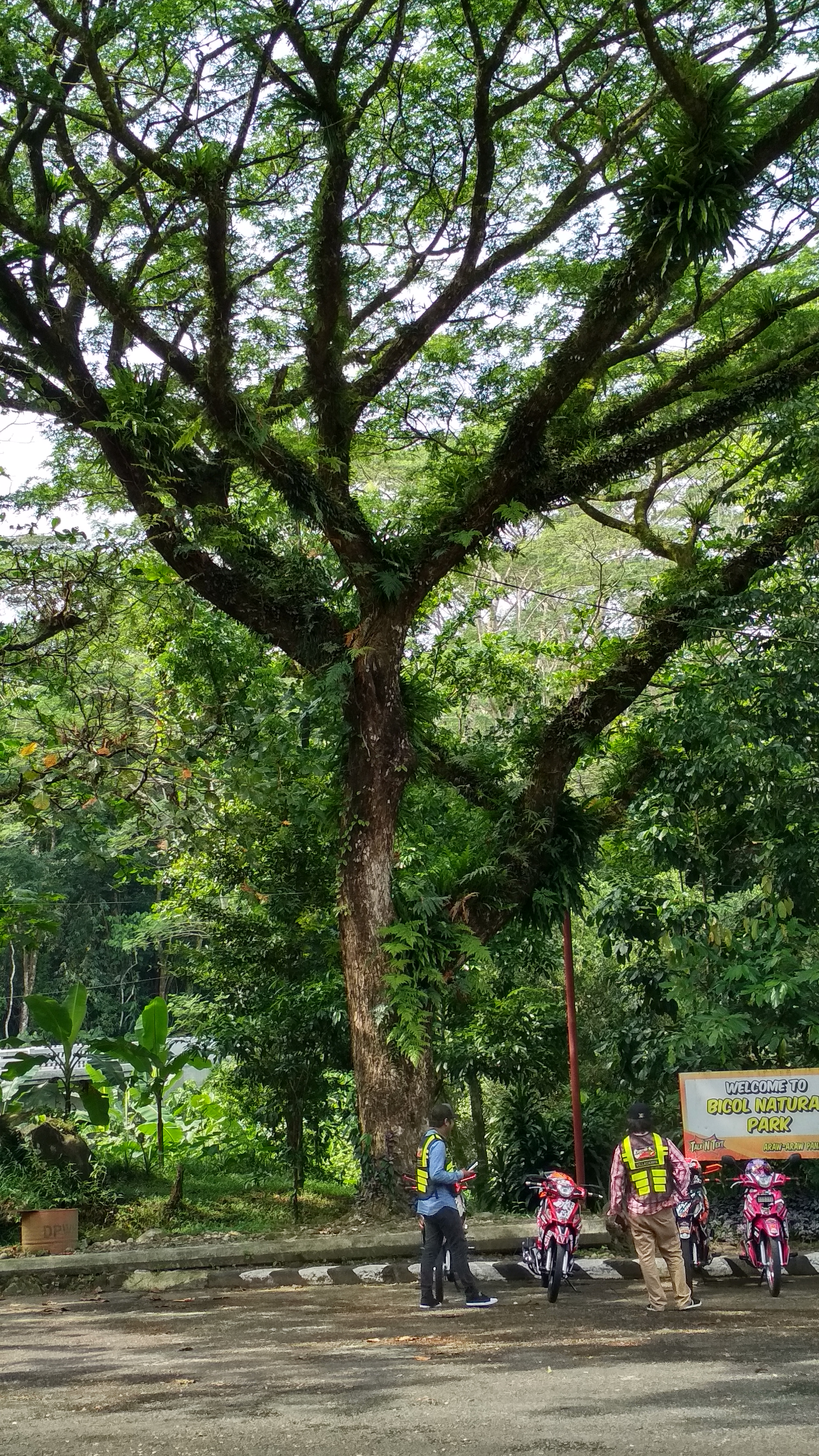 daet cam norte